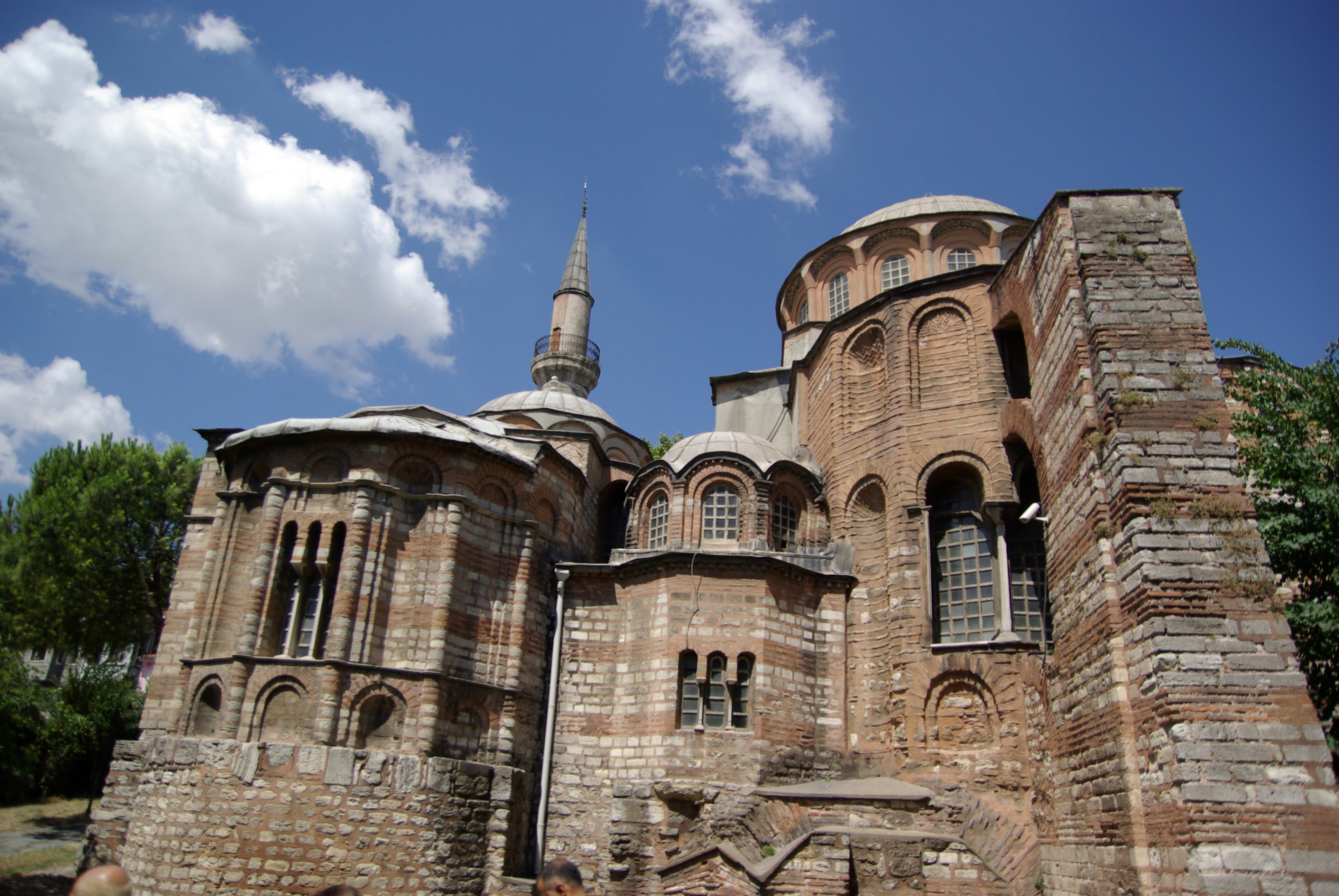 Saint-Sauveur-in-Chora Istanbul